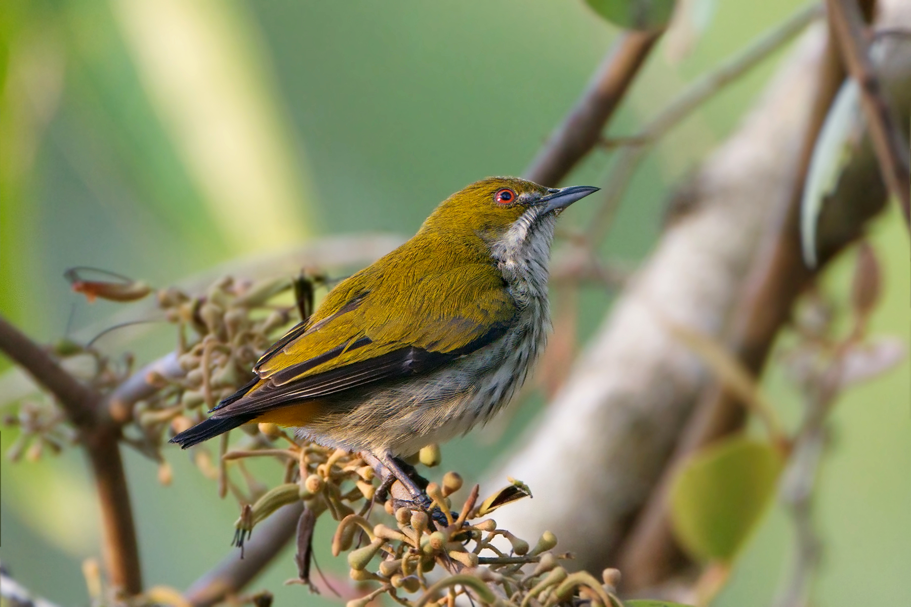 Yellow-vented Flowerpecker (Dicaeum chrysorrheum), Khao Yai National Park, Nakhon Ratchasima, Thailand